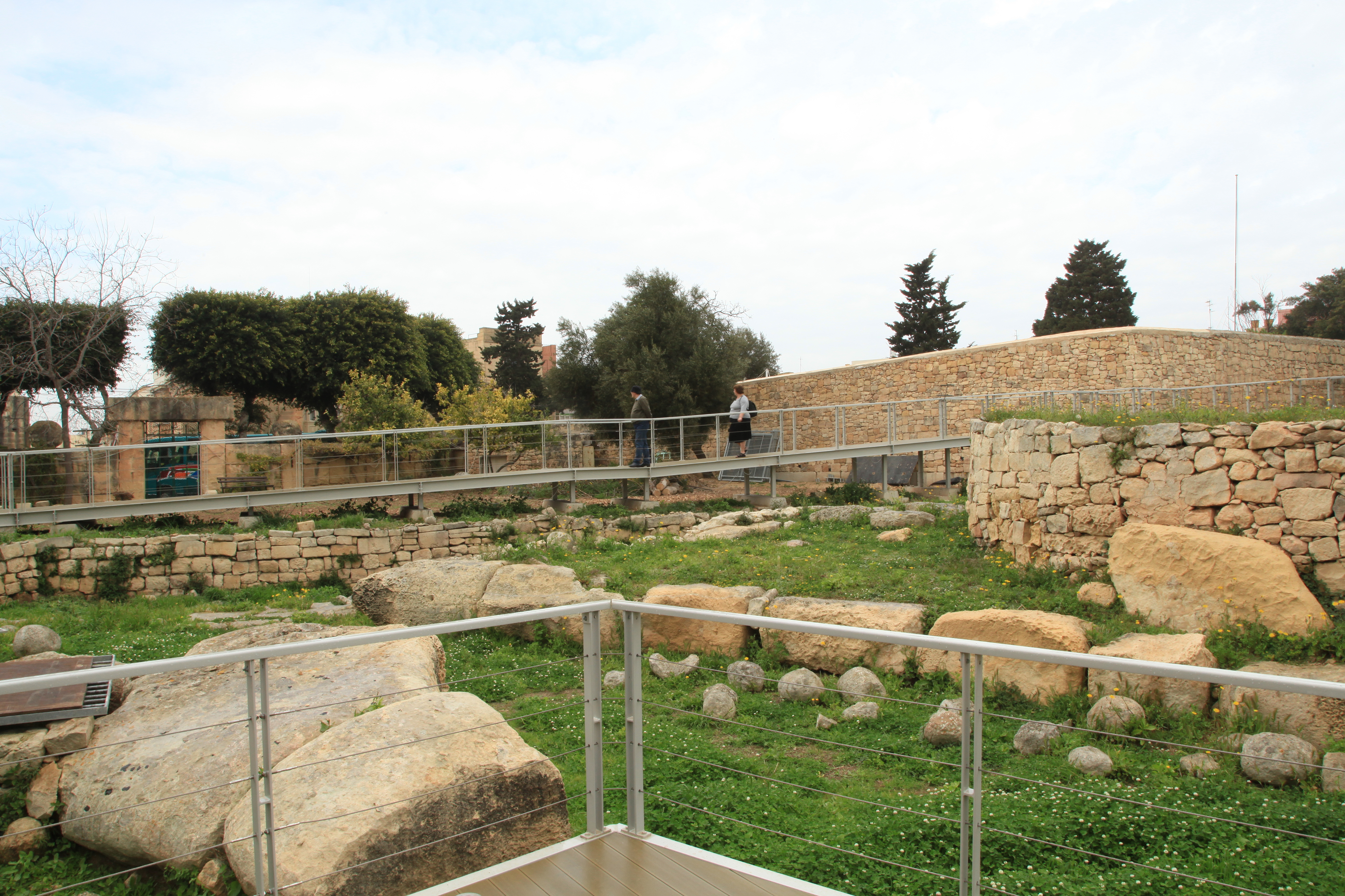 Tarxien Temples, Triq it-Tempji Neolitici in Tarxien, Malta